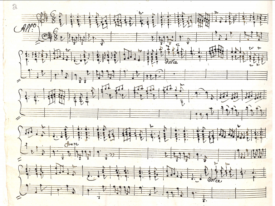 Manuscript of the first page of third movement of "Sonata no. 3 in D major" by Charles-Antoine Campion (dated 1790), conserved in Fondo Ricasoli of University of Kentucky in Louisville